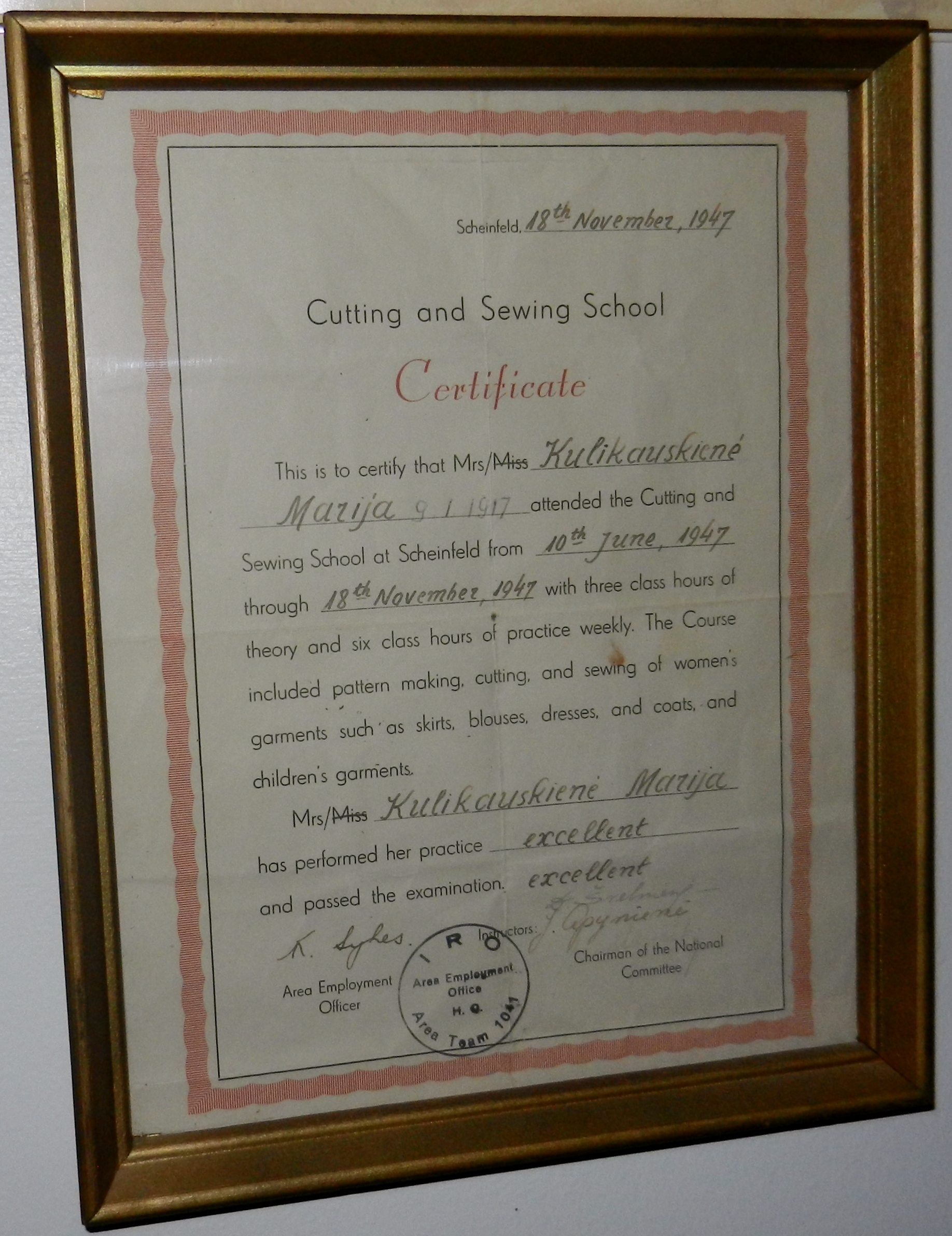 The International Refugee Organization set up a Cutting and Sewing School for displaced persons in Scheinfeld, Germany. Marija Kulikauskiene, a 30 year old refugee from Lithuania, received this diploma on November 18th, 1947. As a villager in Lithuania, she had attended only two years of grade school.